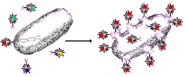 Phage Therapy